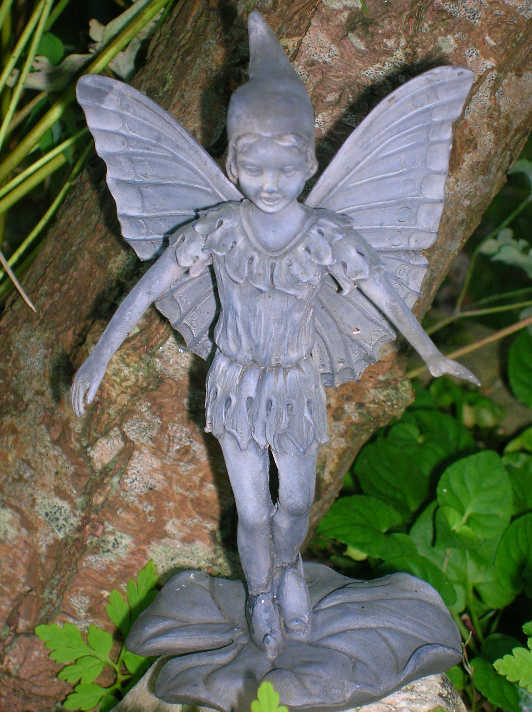 A resin statue of a Fairy in natural surroundings. 2007.